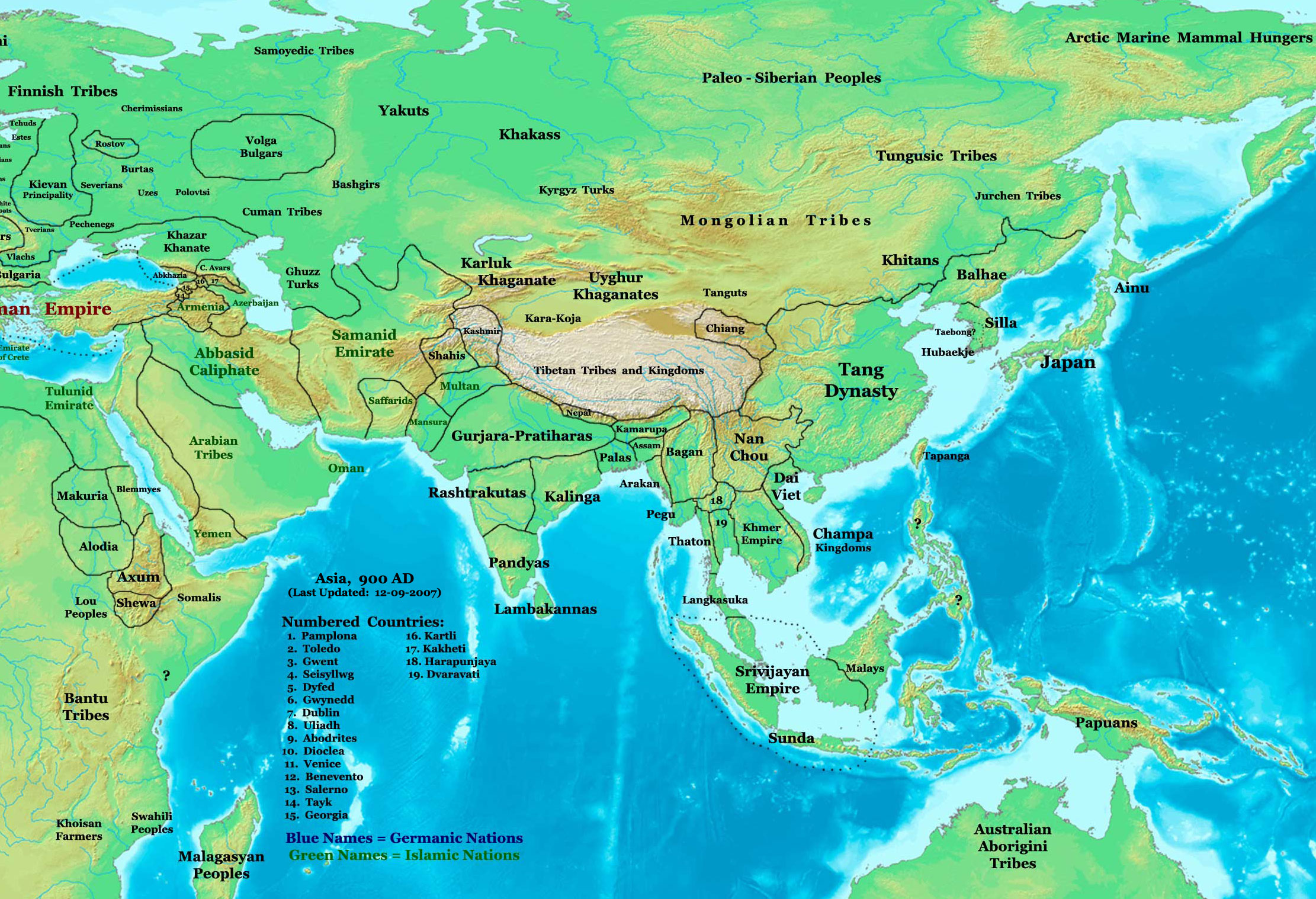 This image is a zoomed-in version of Eastern Hemisphere in 900 AD. thumb|300px|left|Eastern Hemisphere in 900 AD. Author: Thomas A. Lessman. Source URL: Image was created by me (Thomas Lessman) based on map of Eastern Hemisphere in 900 AD. Image is free for public and/or educational use. I would appreciate a mention if this image is used elsewhere. If anyone is interested in helping further this work, please contact Thomas Lessman at . Other Historical Maps by Thomas Lessman 500 BC. 323 BC. 200 BC. 100 BC. 050 BC. 001 AD. 050 AD. 100 AD. 200 AD. 300 AD. 400 AD. 475 AD. 476 AD. 477 AD. 500 AD. 565 AD. 600 AD. 700 AD. 800 AD. 900 AD. 1025 AD. 1100 AD. 1200 AD.